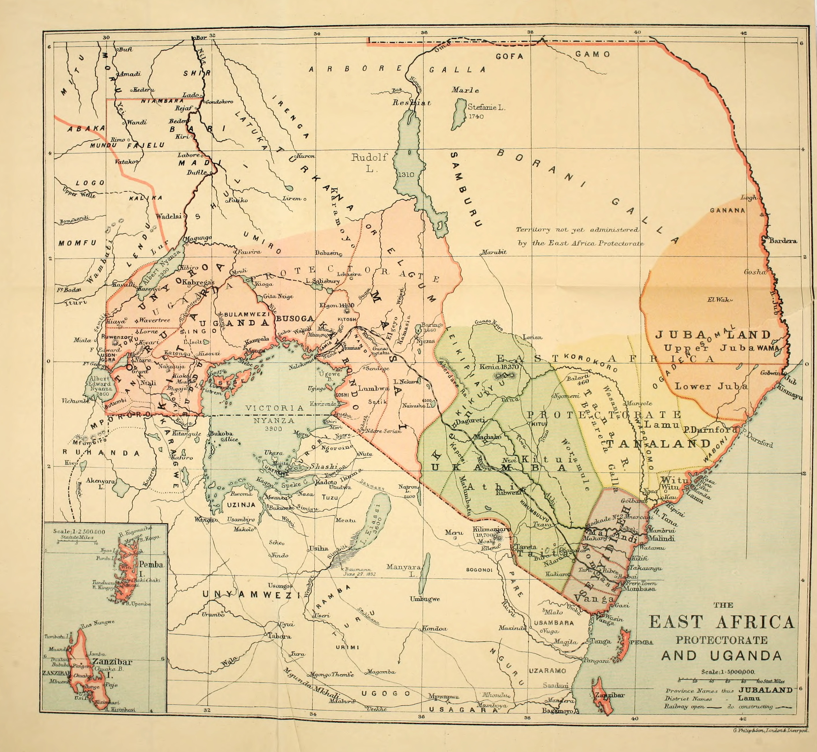 East Africa Protectorate and Uganda (1898)